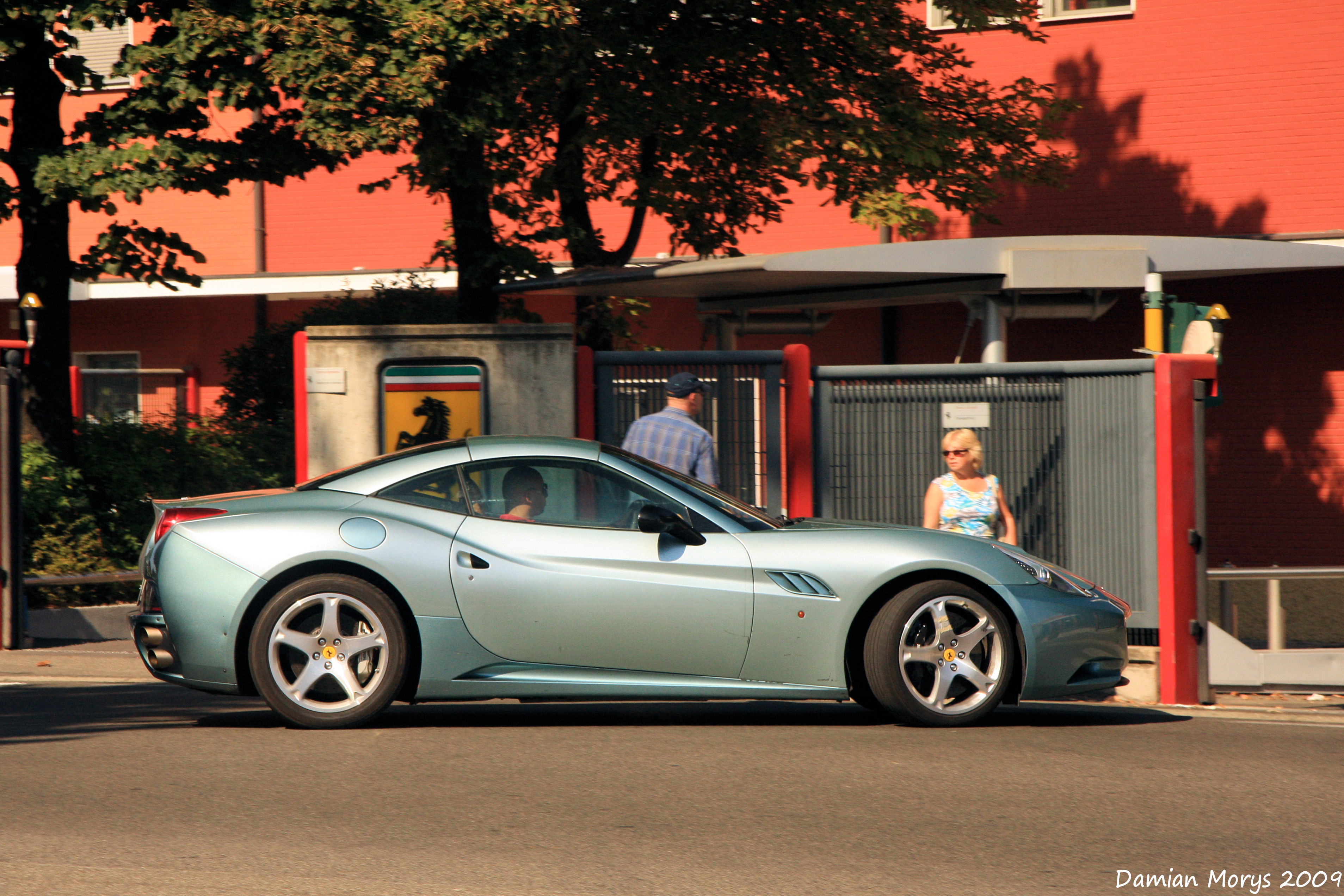 Well, I'm certainly behind on my photos by a ton. Still have to finish these Europe shots and post all the street sightings and events that I shot when I got back. Anyway, looks like this California was being used for some testing (mismatched panels, etc). I actually like the Cali a lot now, especially since I spotted two very uniquely colored ones in these past two days.